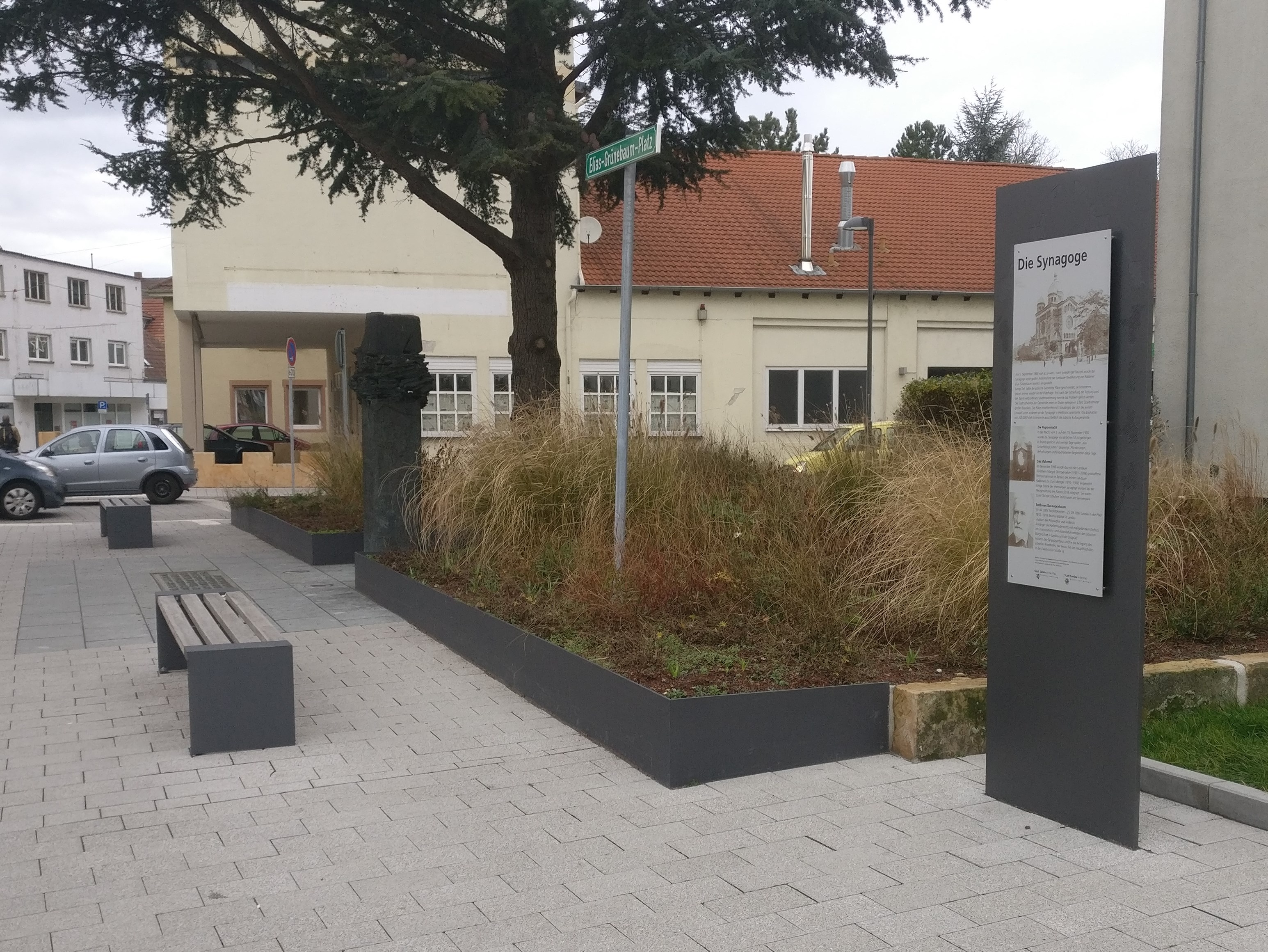 synagogue memorial landau i. d. palatinate